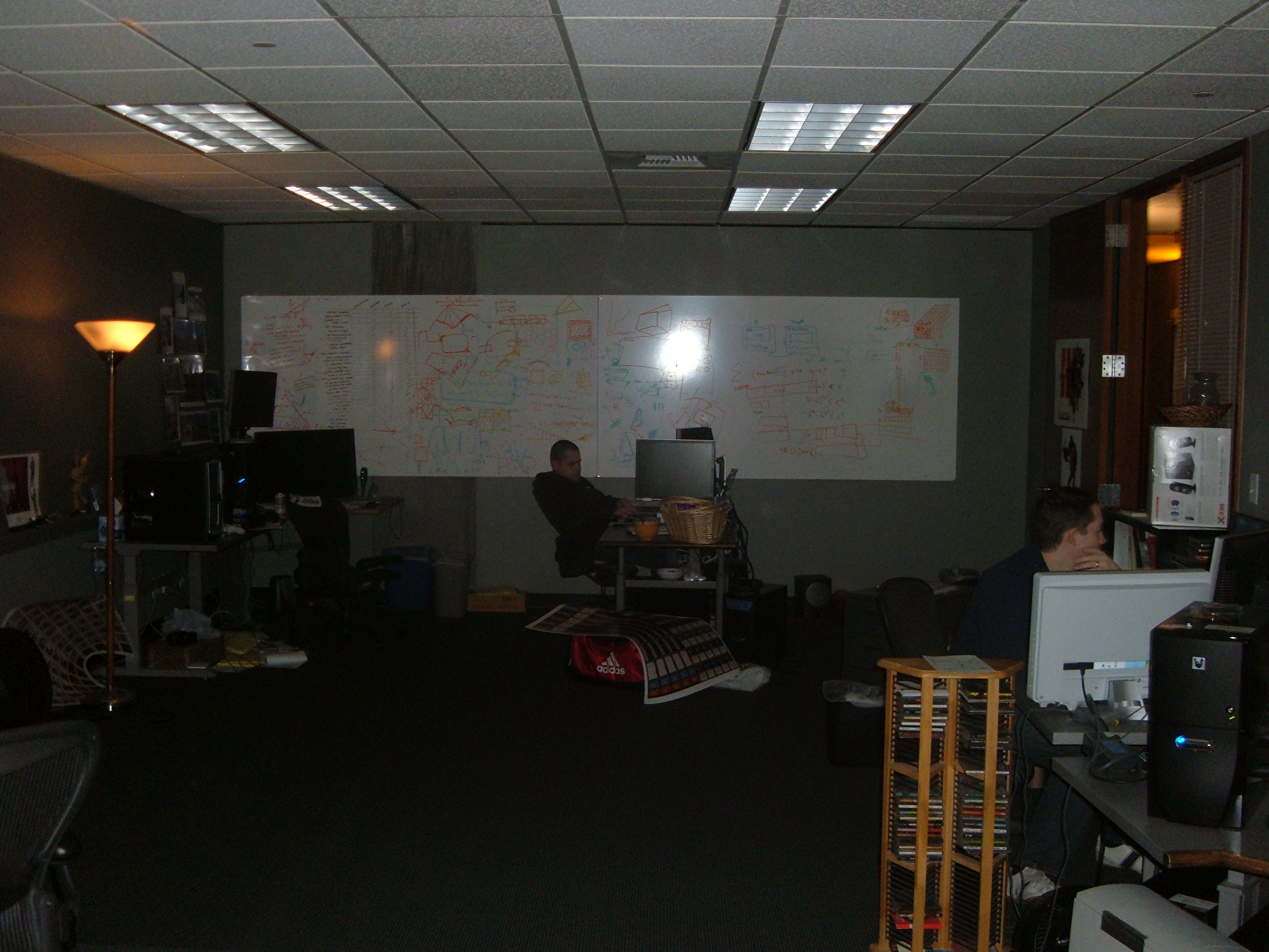 A cabal room used to design games at Valve Software HQ